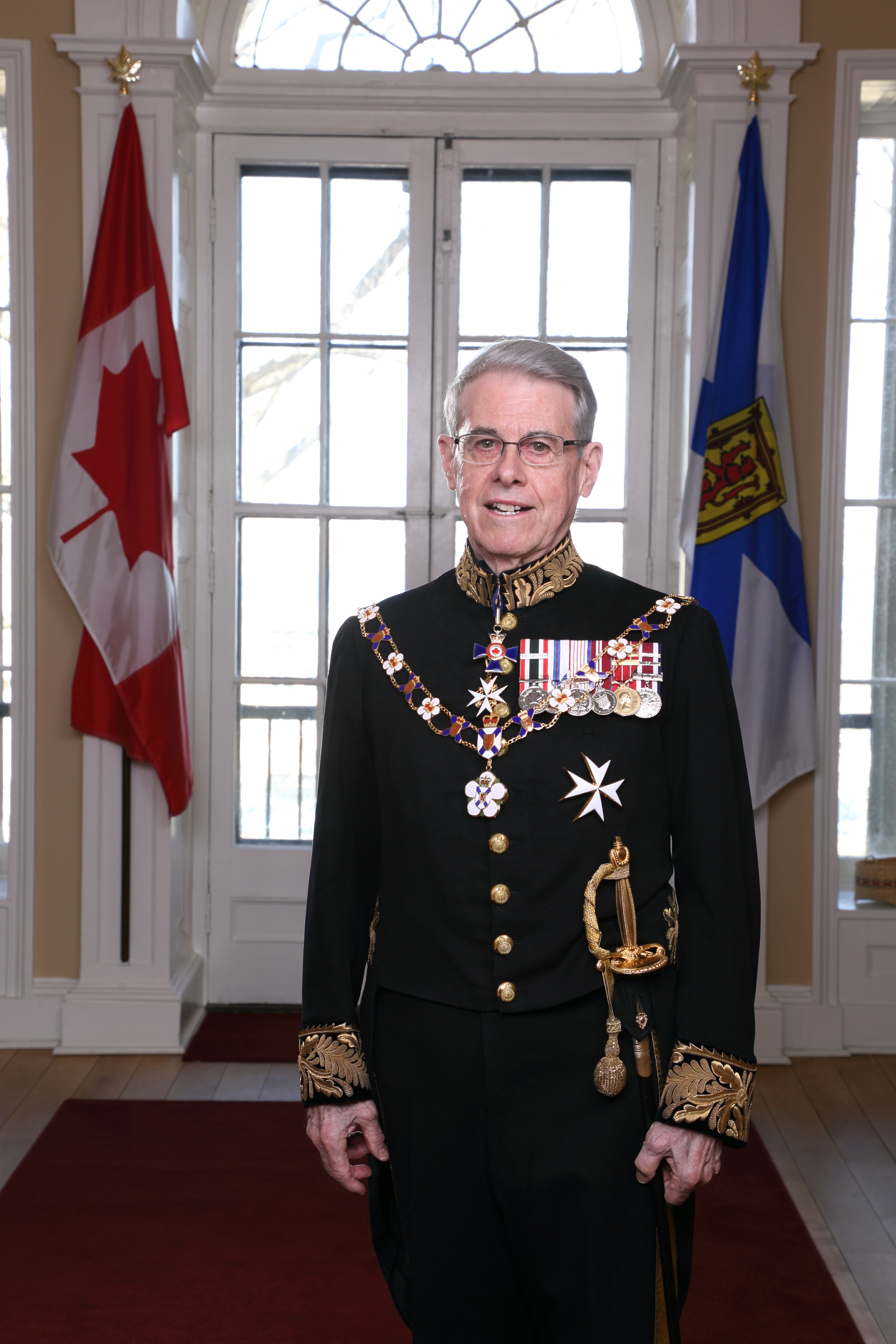 Brigadier-General the Honourable John James Grant in the Levee Dress Civil Uniform, wearing the Chancellor's Chain of the Order of Nova Scotia. Photo taken in the foyer of Government House Halifax, 2014.